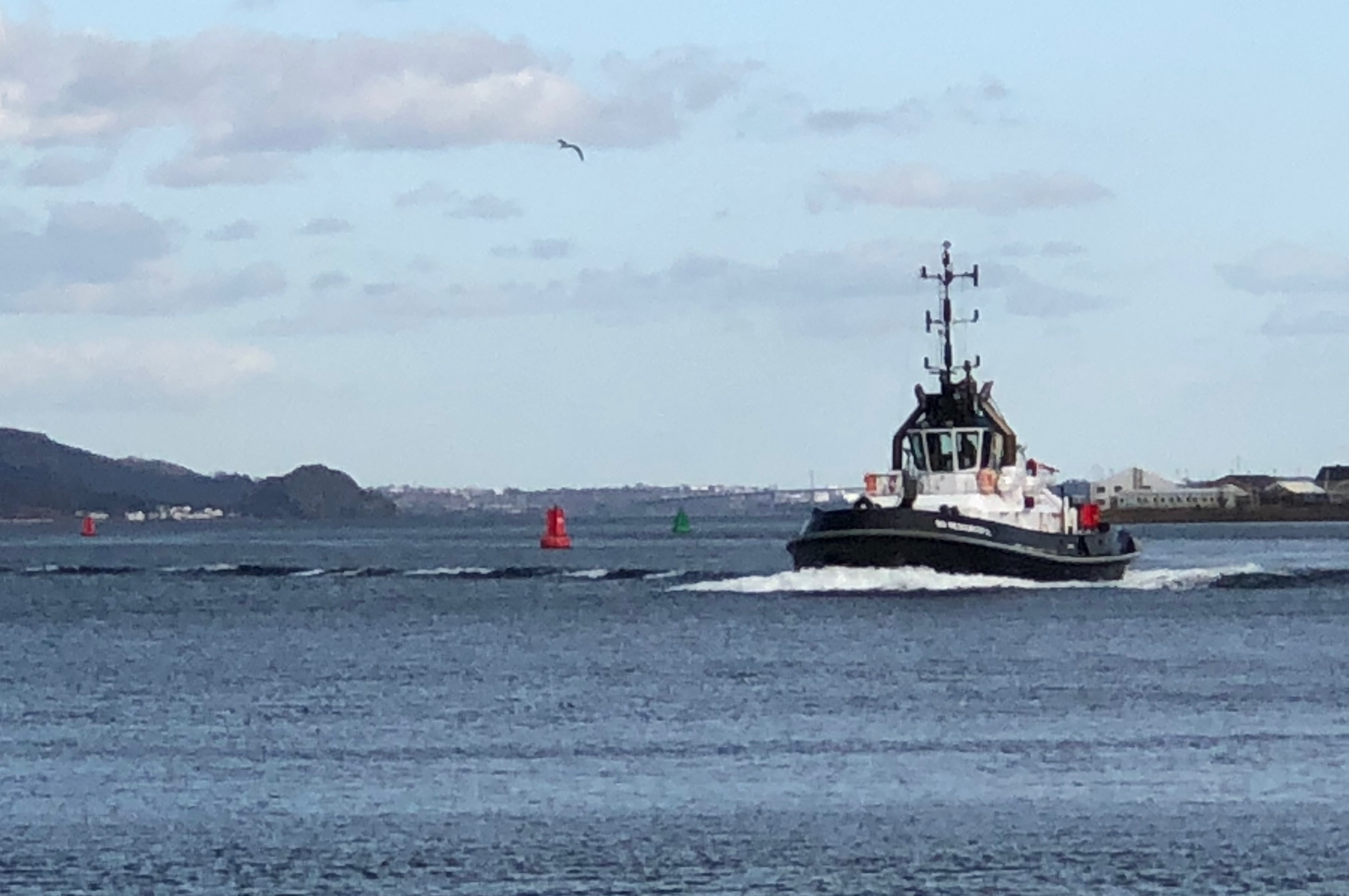 View from Greenock waterfront up the River Clyde, with Dumbarton Rock to the left, and Serco Marine Services tug SD Resourceful MMSI 235072824 approaching.